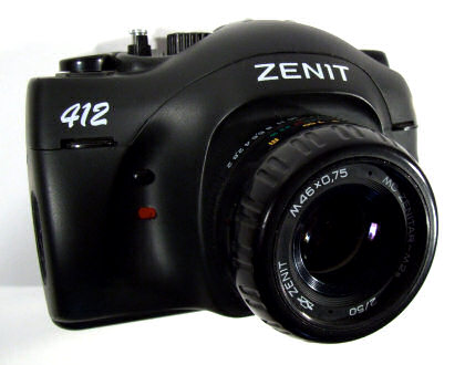 Zenit 412 film camera.